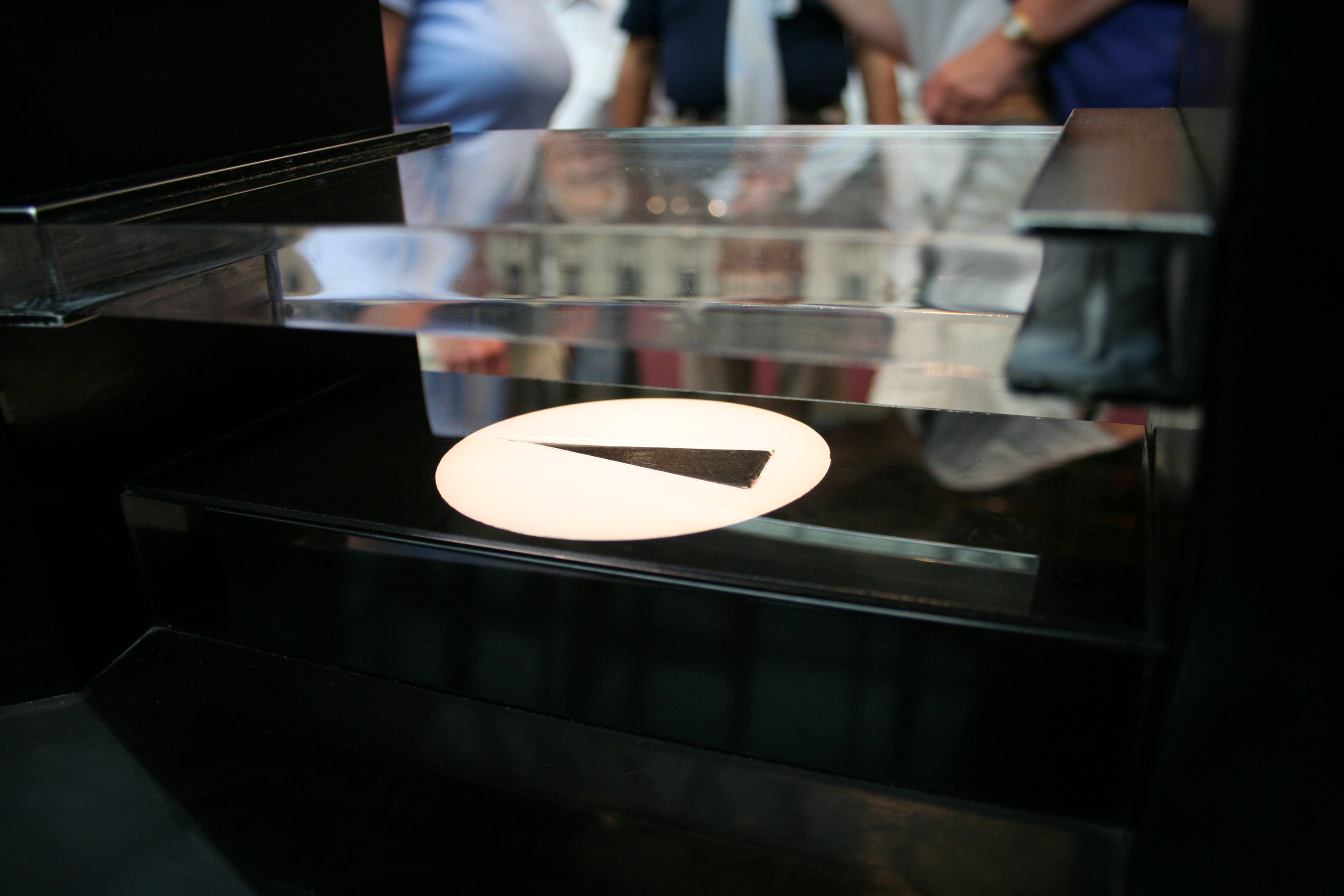 Slice of moonrock for visitors to touch on display in Washington, D.C. This lunar sample was cut from a rock collected on the surface of the Moon during the Apollo 17 mission in December 1972. Found near the landing site in the Valley of Taurus-Littrow, it is an iron-rich, fine-textured volcanic rock called basalt. It is nearly 4 billion years old.